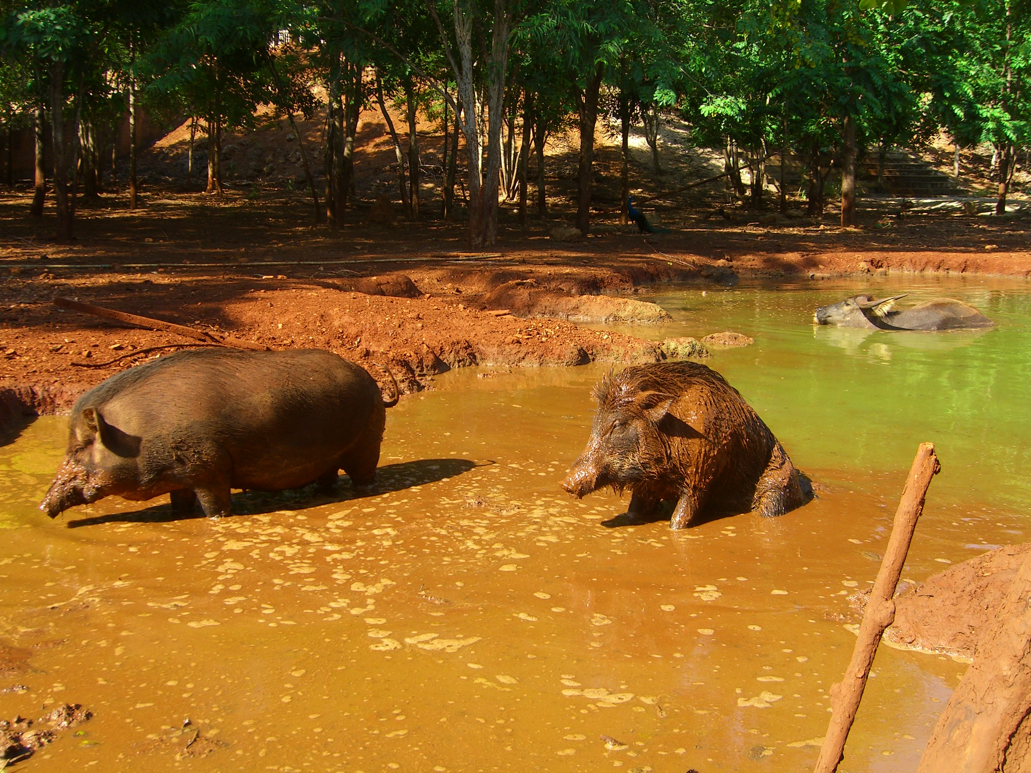 2 unidentified suidae in the shallow part of a mud wallow. water buffalo in background.